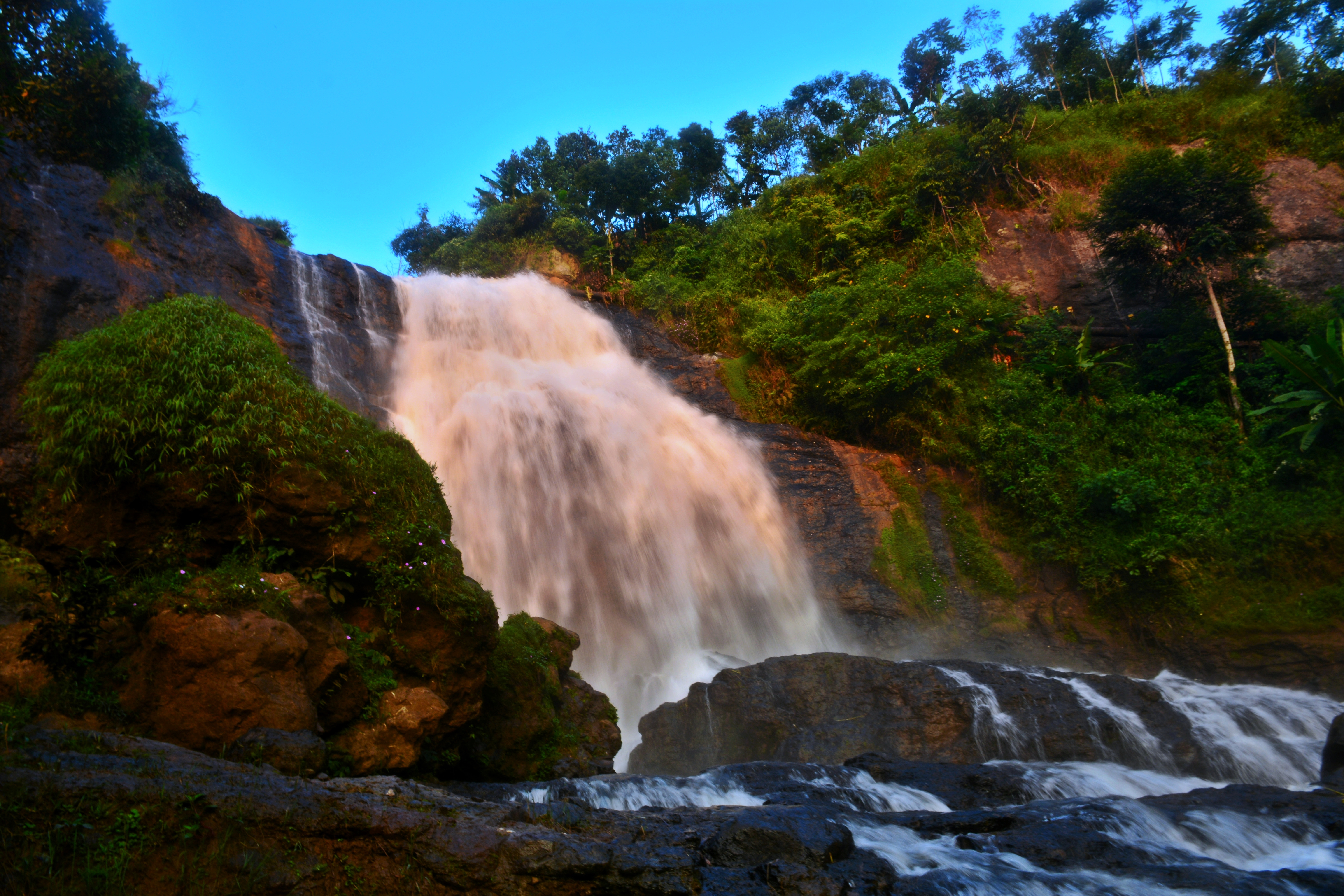 This waterfall is located in Cianjur West Java